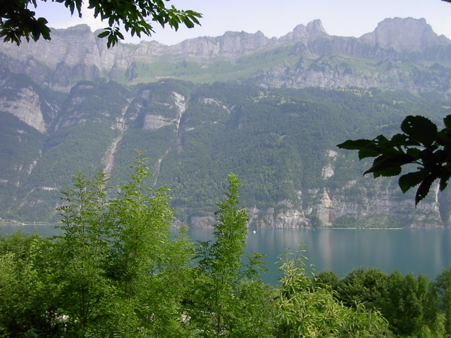 Walensee (facing north).